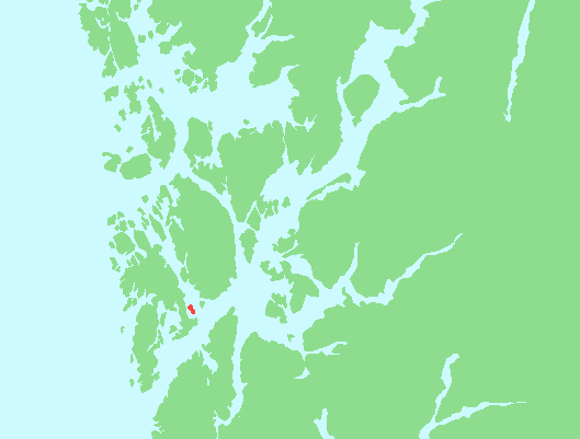 Locator map of Spissøy, Hordaland, Norway